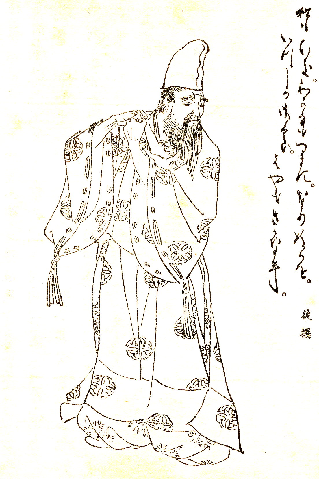 Fujiwara no Saneyori (藤原 実頼) was a Japanese noble who began serving as Kampaku when Emperor Reizei assumed the throne in 967. This picture was drawn by Kikuchi Yosai（菊池容斎） who was a painter in Japan.